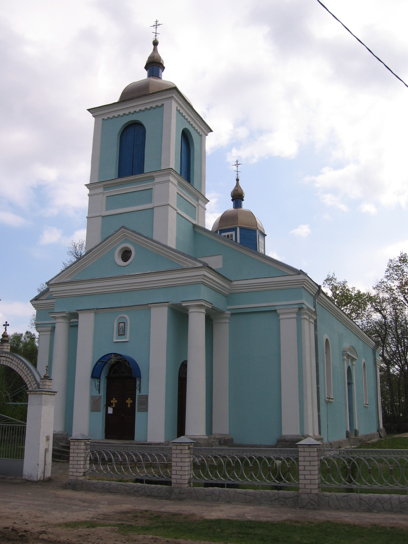 This is a photo of Belarusian heritage monument. Reference number: 113Г000607 ( WLM)